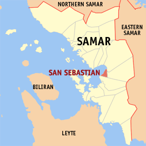 Map of Samar showing the location of San Sebastian